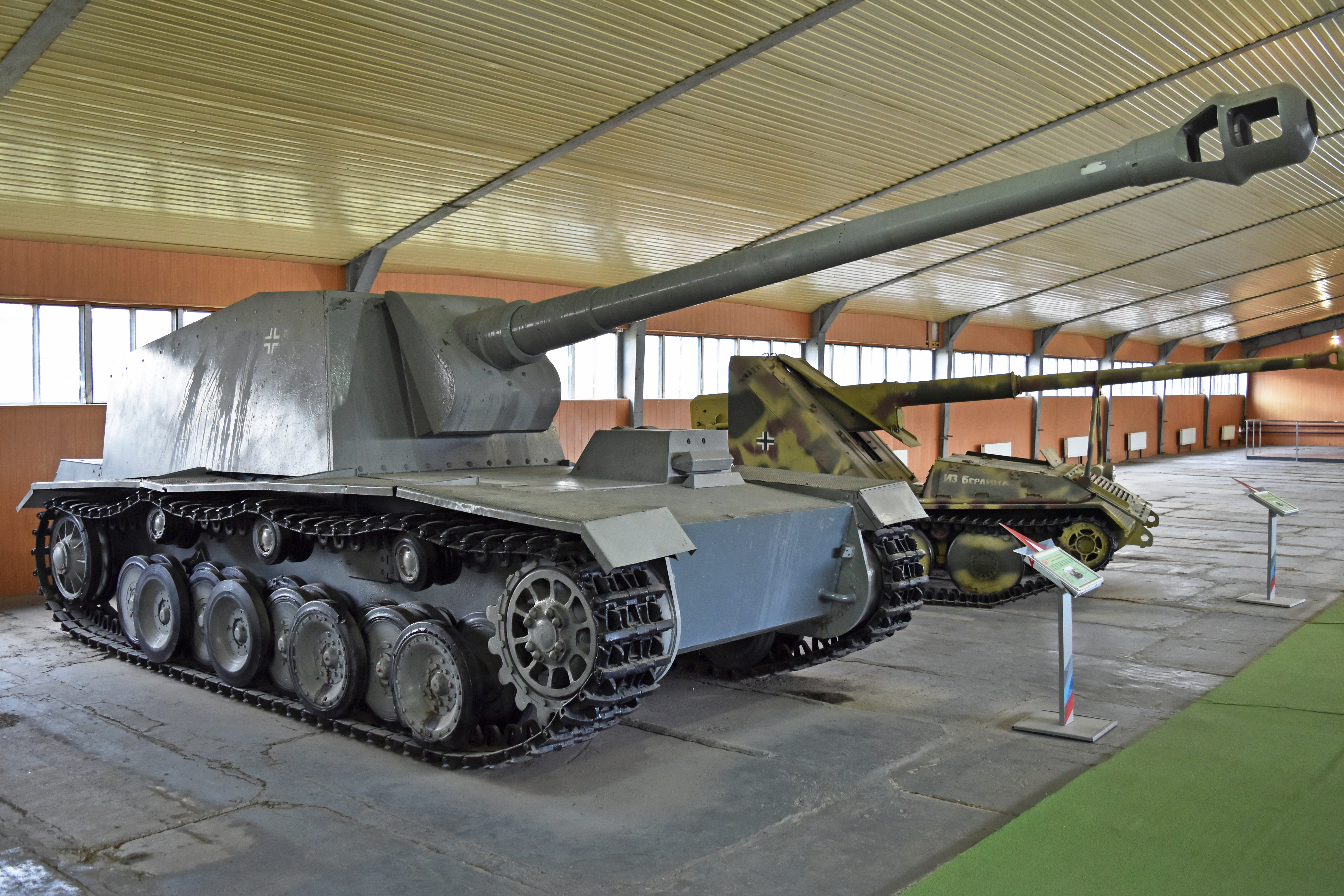 The “Sturer Emil” (Stubborn Emil) was an experimental German WW2 heavy tank destroyer which mounted the Rheinmetall 128mm PaK 40 L/61 gun on the Henschel VK30.01 chassis. Only two were built. Named ‘Max’ and ‘Moritz’ they both saw active service on the Eastern Front. One was destroyed while the other, carrying 31 kill markings, was captured at Stalingrad in January 1943. It is now on display in what is best known as Hall 5 of the Kubinka Tank Museum, although its official title is now Pavilion 5 in Area 2 of the Park Patriot museum. Kubinka, Moscow Oblast, Russia. 24th August 2017.